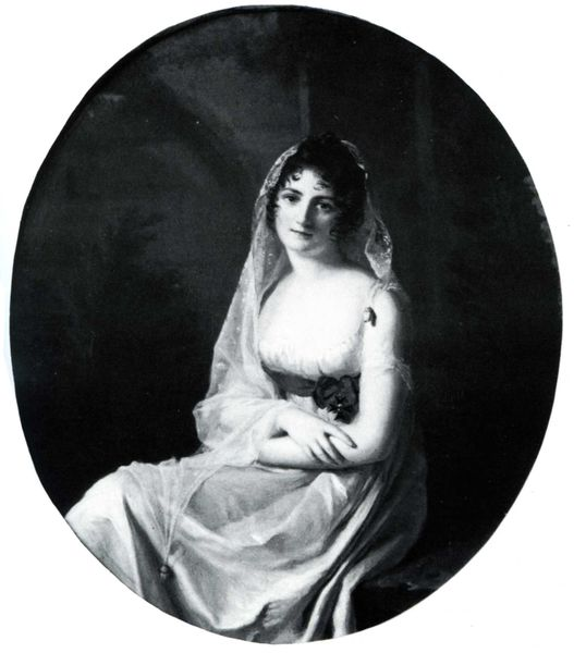 Adèle de Sellon (1780-1846) mother of Count Camillo Benso di Cavour (1810-1861).